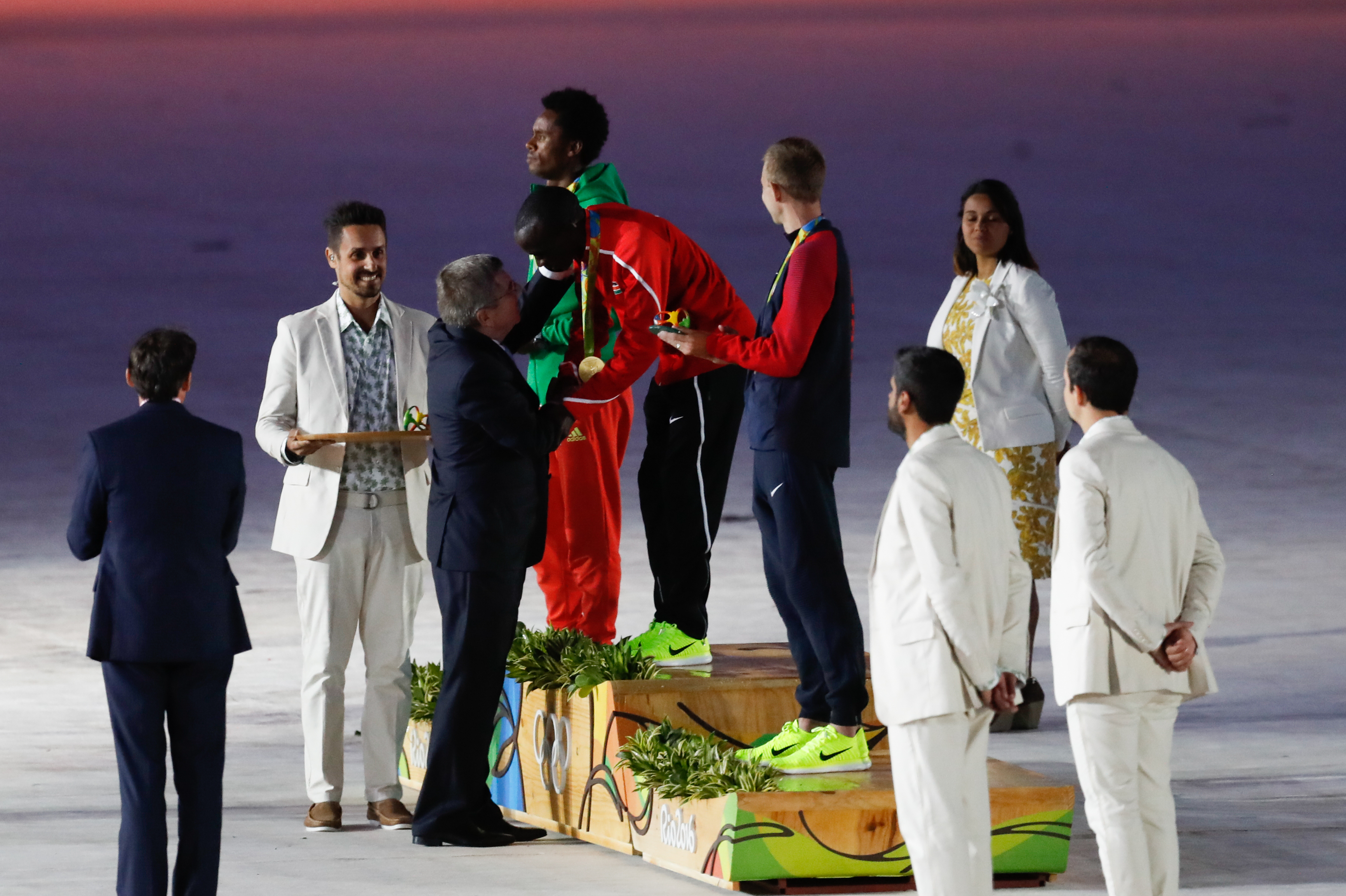 Rio de Janeiro - Cerimônia de encerramento dos Jogos Olímpicos Rio 2016, no Maracanã (Fernando Frazão/Agência Brasil)